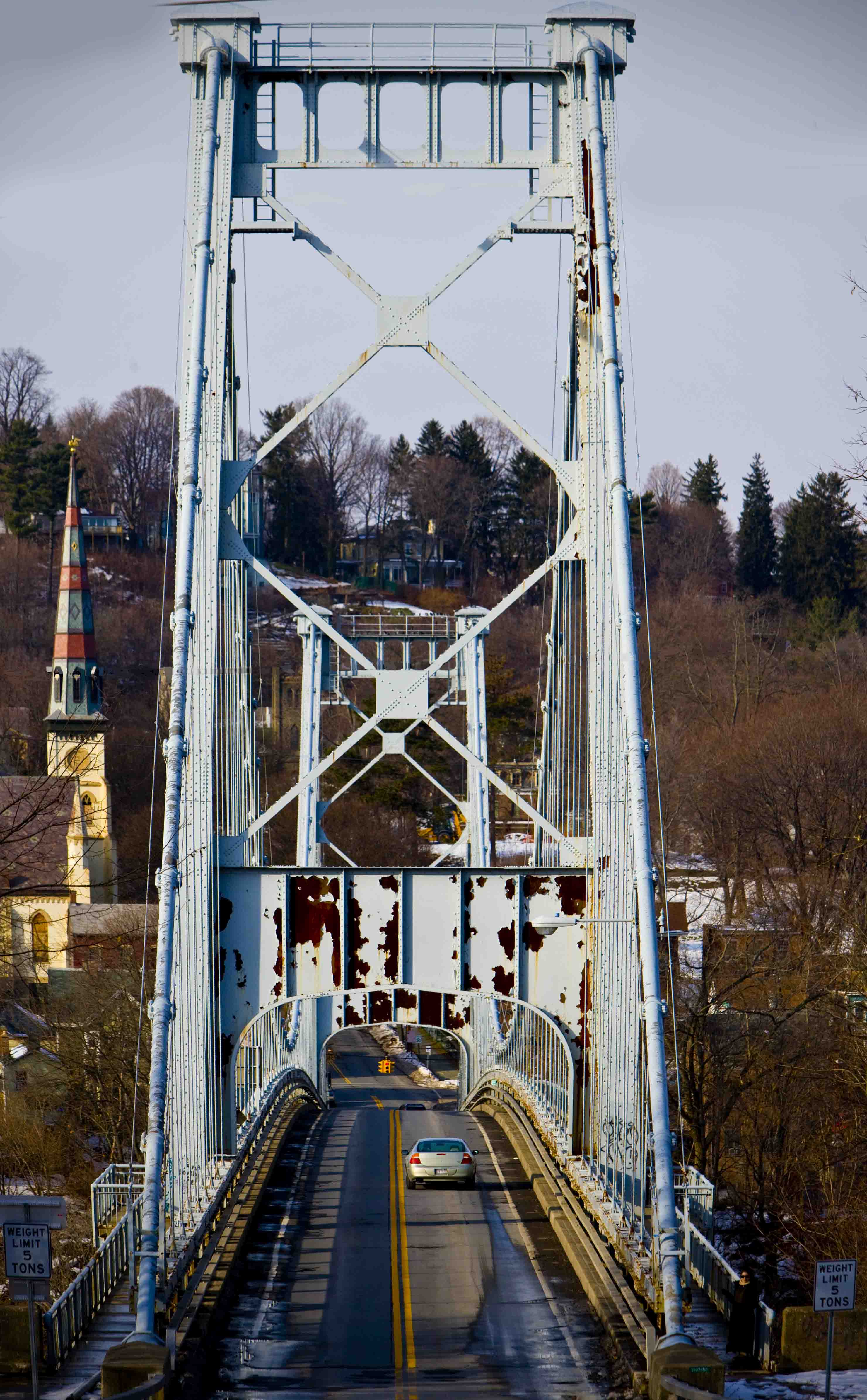 a photograph of the Wurts street Bridge from the Rondout in Kingston NY to Port Ewen NY Over the Rondout Creek, viewed from the Port Ewen approach. Completed in 1921 The bridge is limited to 5 tons and is expected to be renovated in 2009 by the state department of transportation